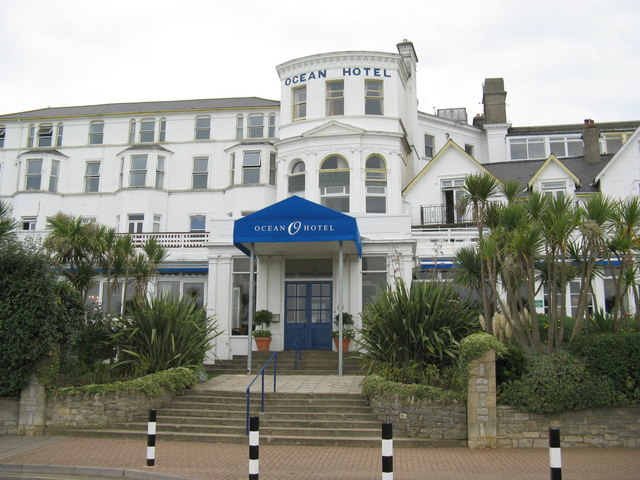 Ocean Hotel- Sandown View of Ocean Hotel Sandown taken from promenade fronting the hotel